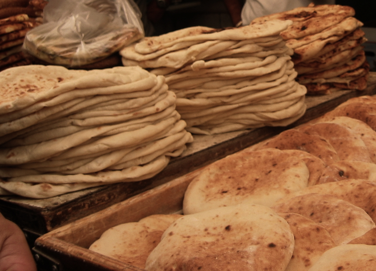 Stacks of pita for sale, Mahane Yehuda marketplace, Jerusalem, Israel